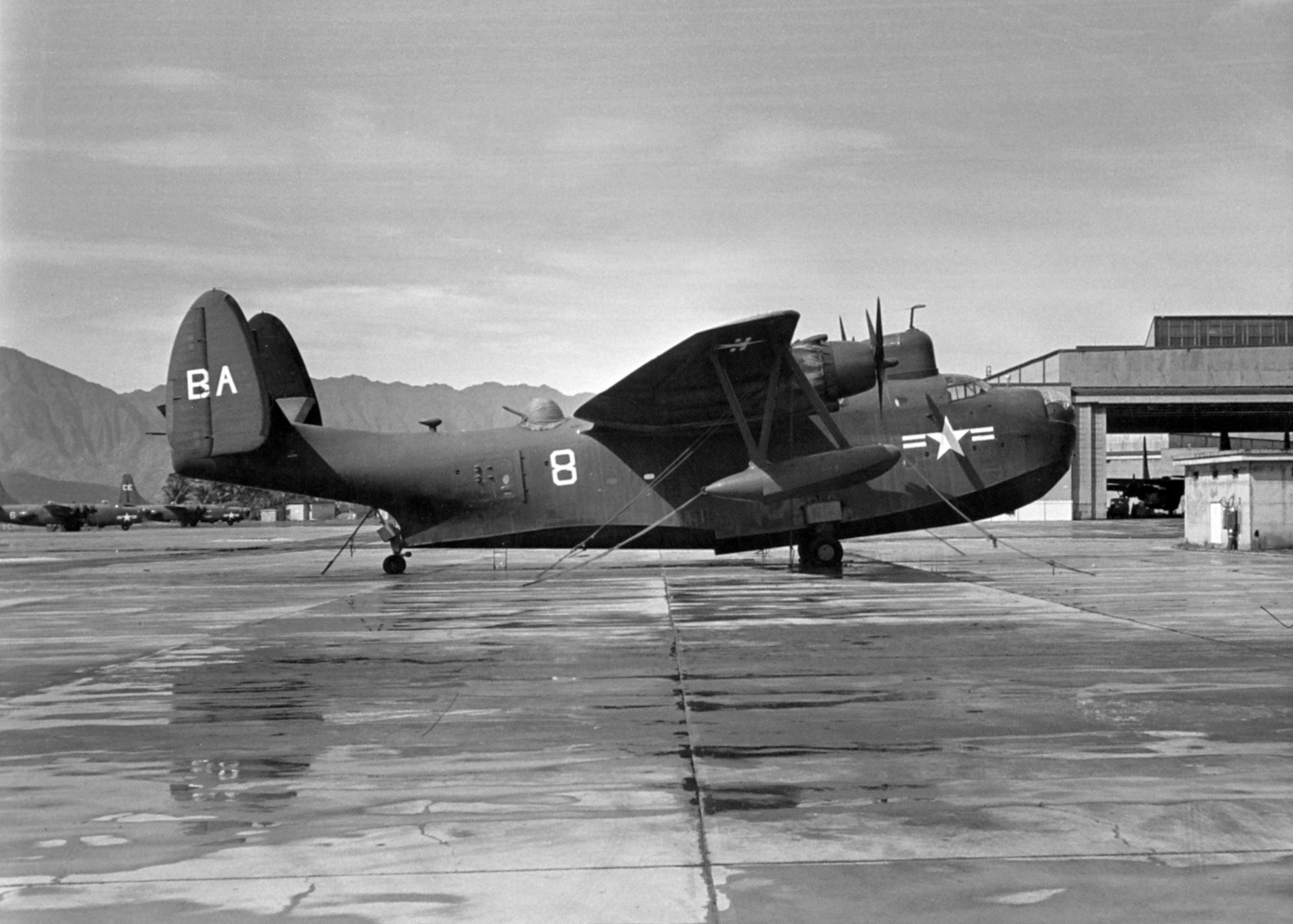 A U.S. Navy Martin PBM-5 Mariner from Patrol Squadron VP-47 Golden Swordsmen at Naval Air Station Kaneohe Bay, Hawaii. VP-47 was reassigned to NAS North Island, California (USA), on 2 March 1949. In the background are Consolidated PB4Y-2 Privateer aircraft from VP-22 Blue Geese Squadron which was based at NAS Kaneohe Bay between 2 July 1948 and 1 May 1949.